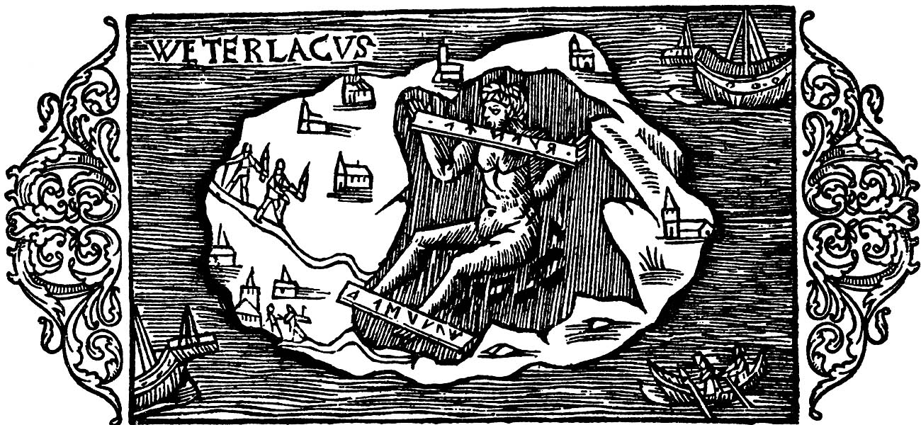 The woodcut shows Visingsö in Lake Vättern in Sweden. In a cave the Wizard Gilbert is fettered with two rune staffs. On the road to the left we see tow men with torches which are looking for the cave.